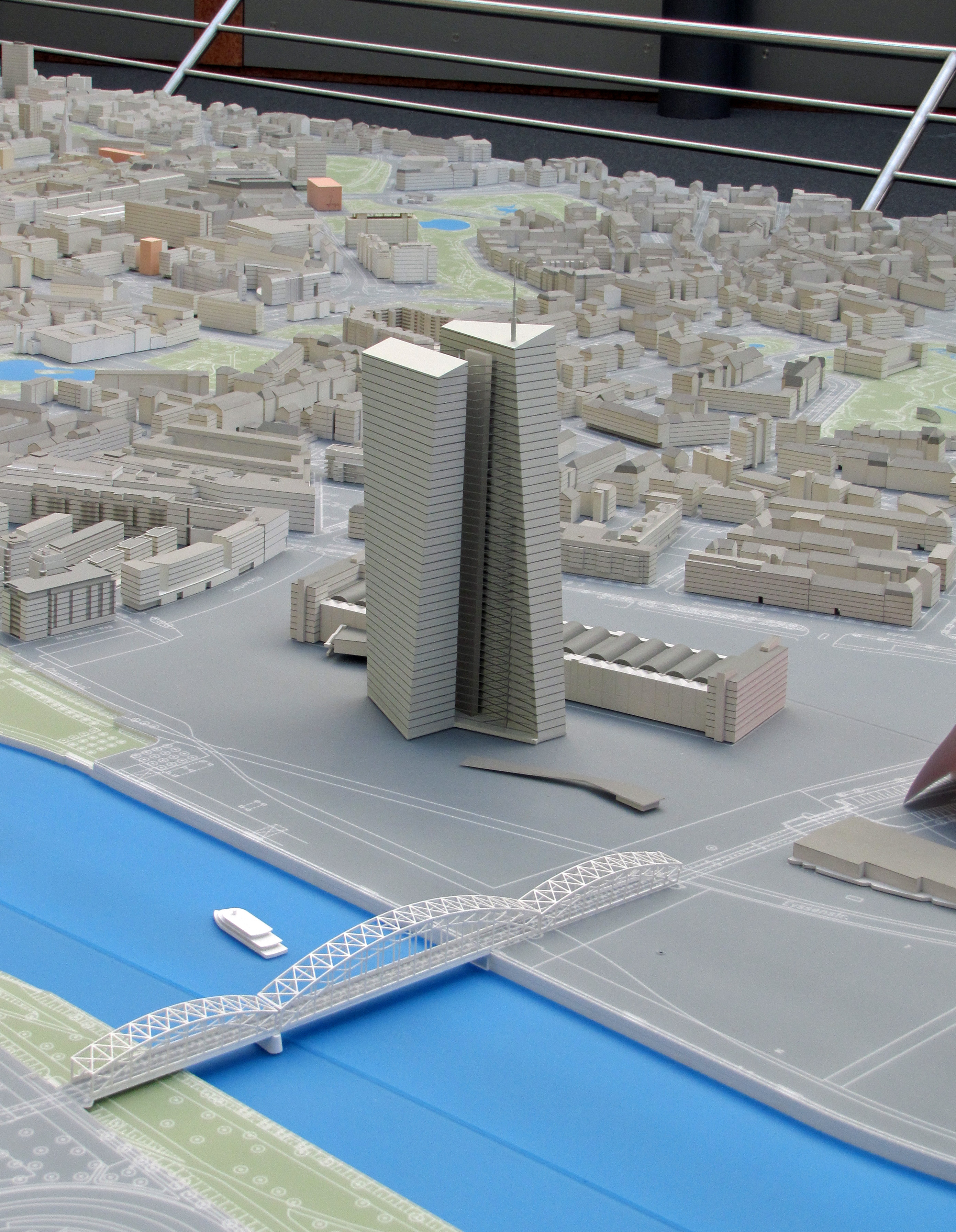 Model of "Skytower" (European Central Bank Headquarters planning), at Stadtplanungsamt (urban planning office) in Frankfurt am Main, Germany.